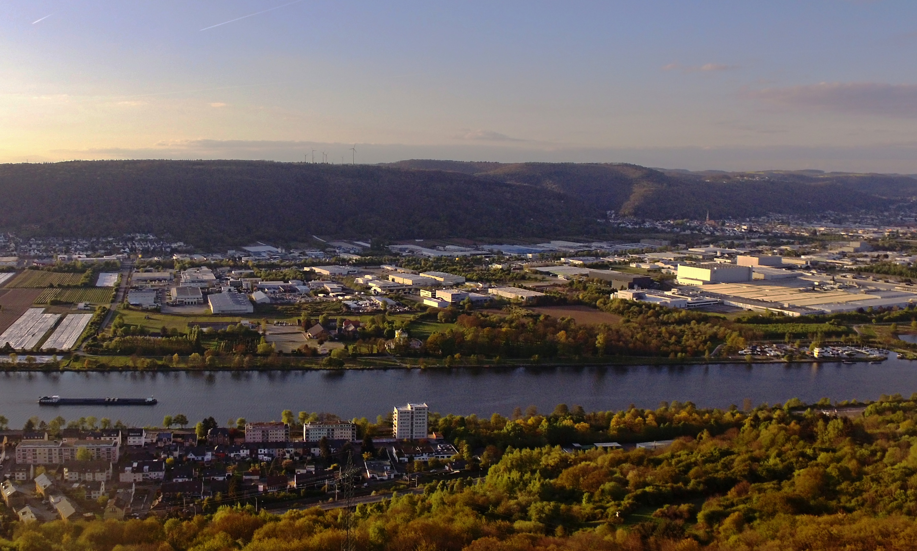 Industrial park Trier-Zewen (Rhineland-Palatinate, Germany). In the foreground Konz-Karthaus and the Moselle river.